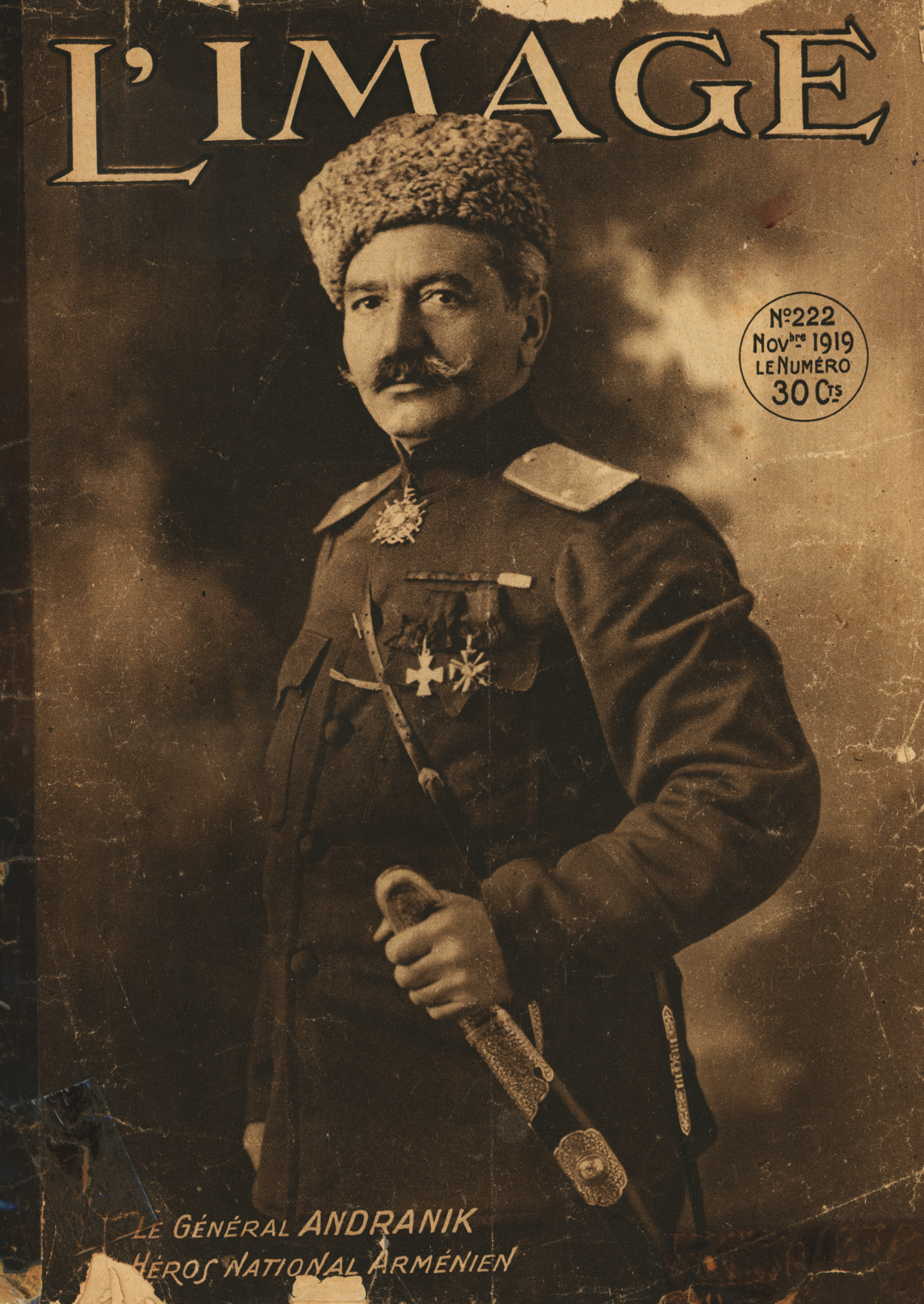 Armenian national hero General Andranik, 1919